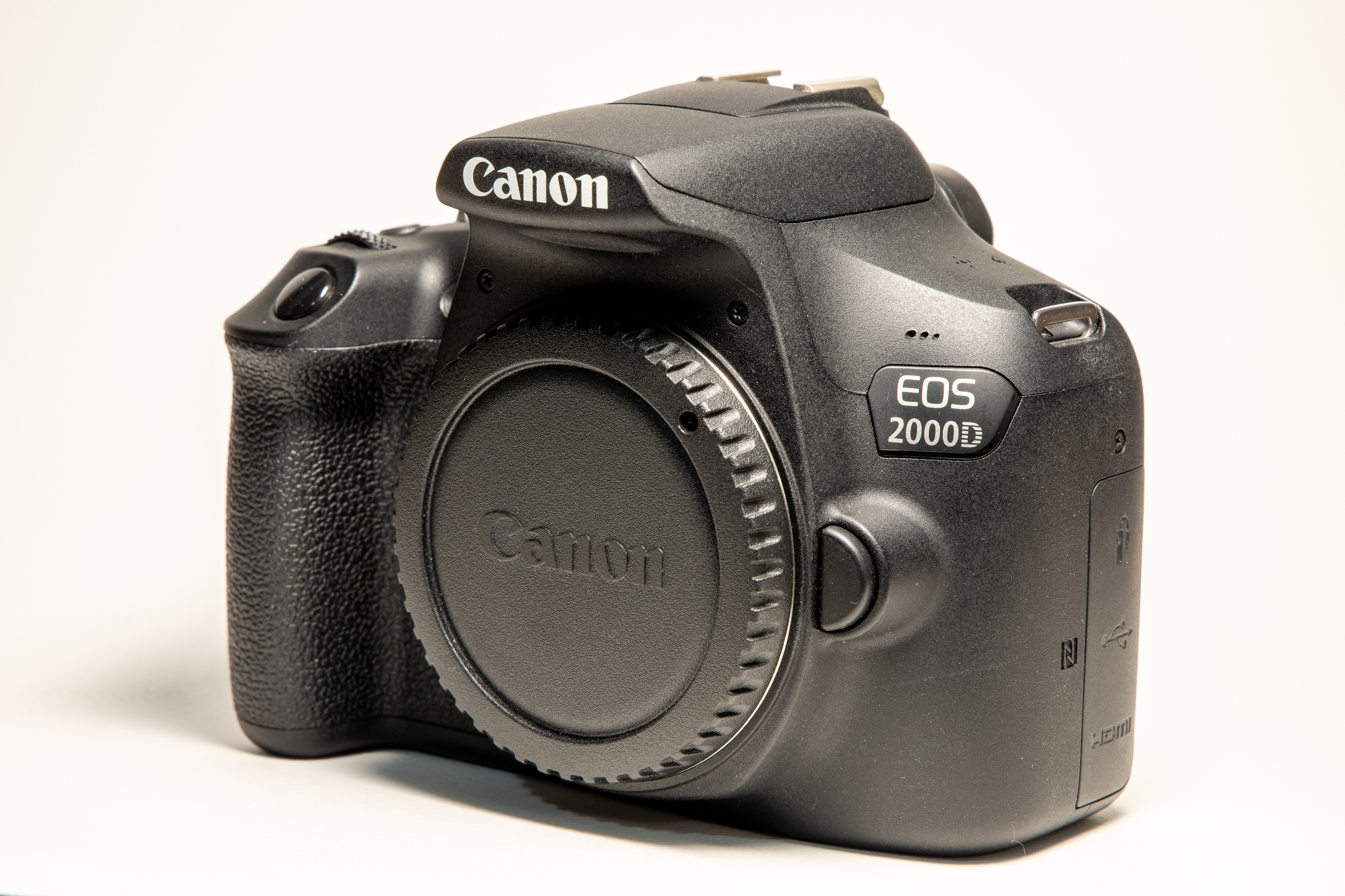 Canon EOS 2000D body pictured on white background